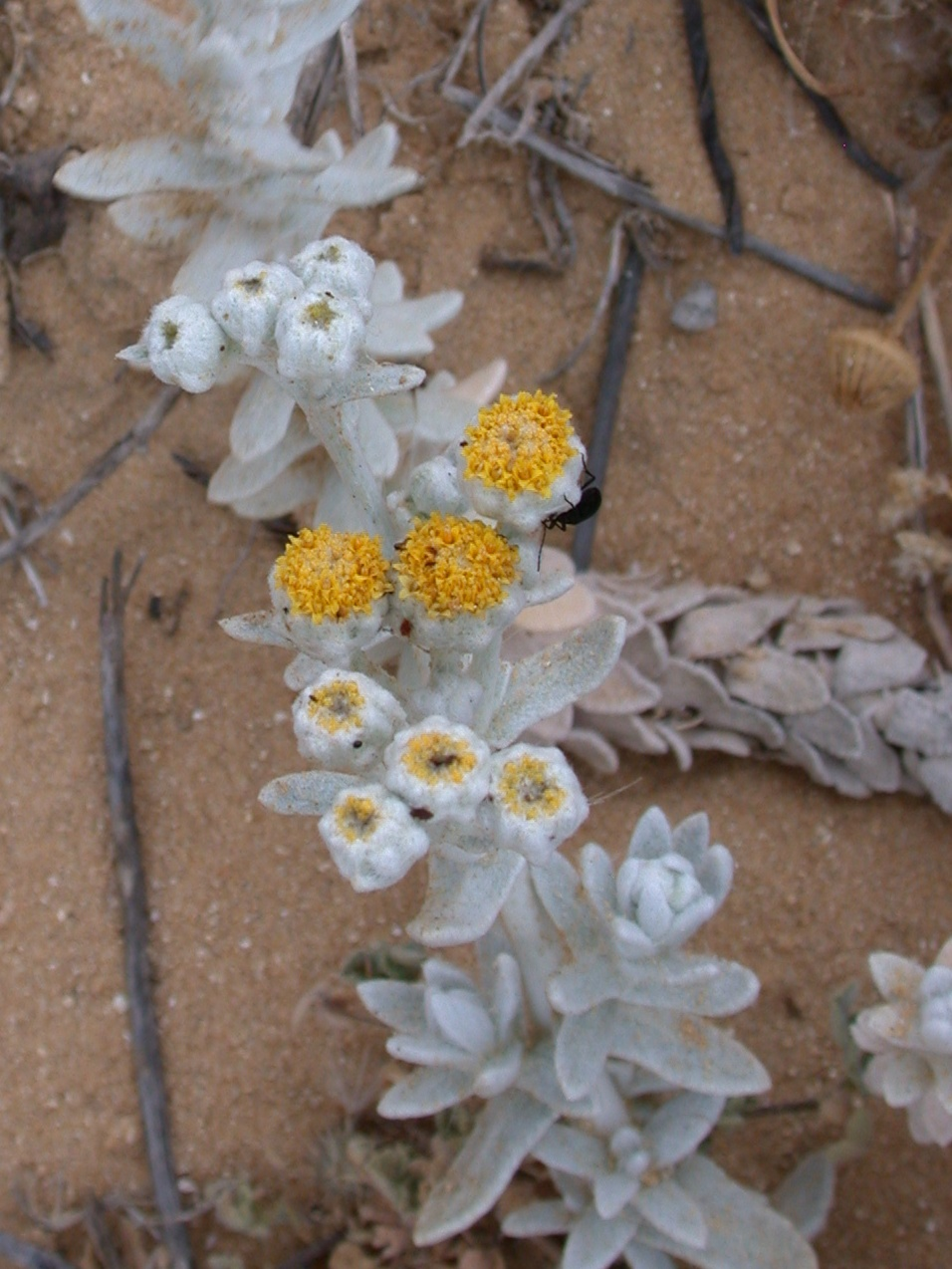 Achillea maritima subsp. maritima, Netanya Beach, Israel, May 2, 2009.